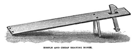 19th century knowledge carpentry and woodworking simple shaving horse